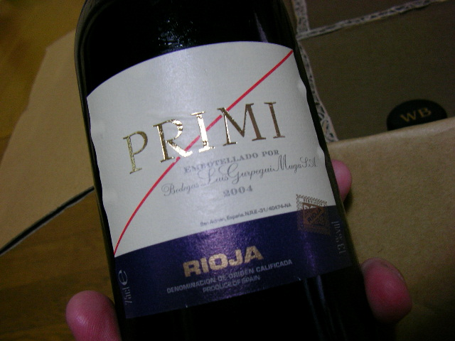 Photography of a bottle of wine from La Rioja (Spain)